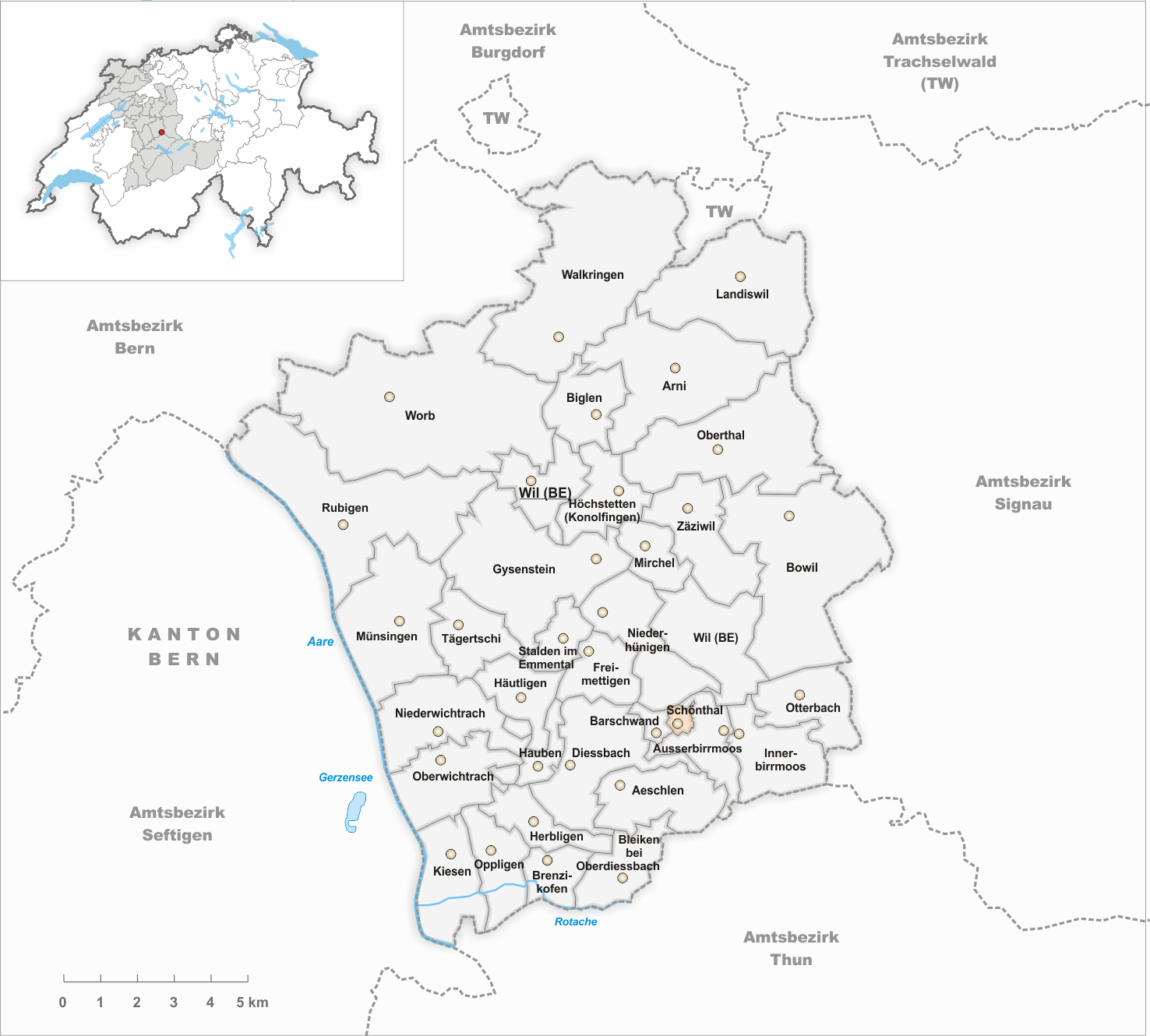 Municipality Schönthal